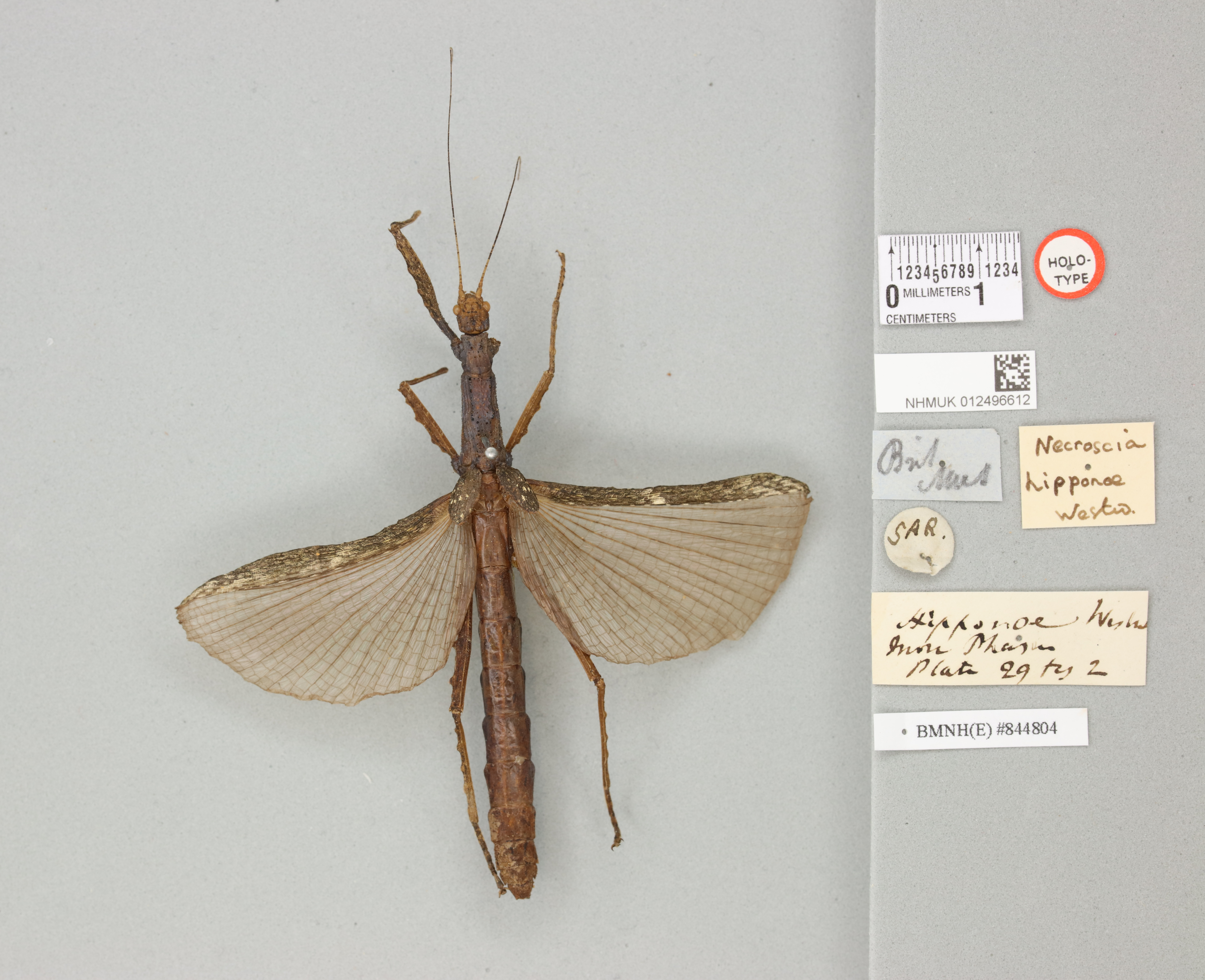 Holotype of Neoclides simyra at National History Museum, London, specimen number NHMUK12496612